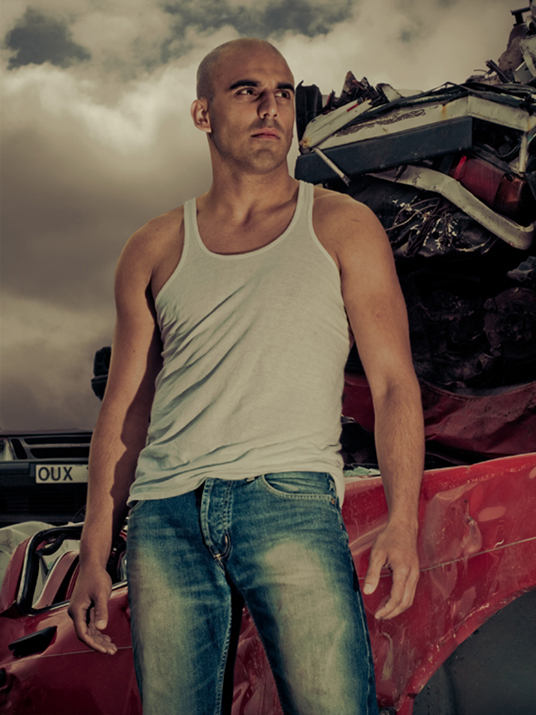 Umar Khan posing in a scrapyard